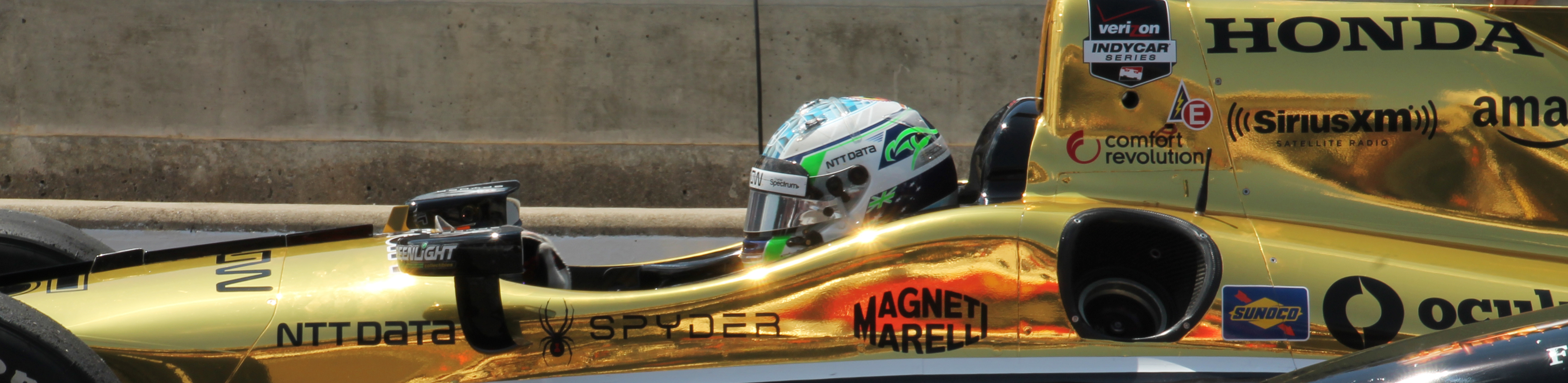 Ryan Briscoe driving James Hinchcliffe's car during the Pit Stop Challenge on Carb Day on 2015 at the Indianapolis Motor Speedway